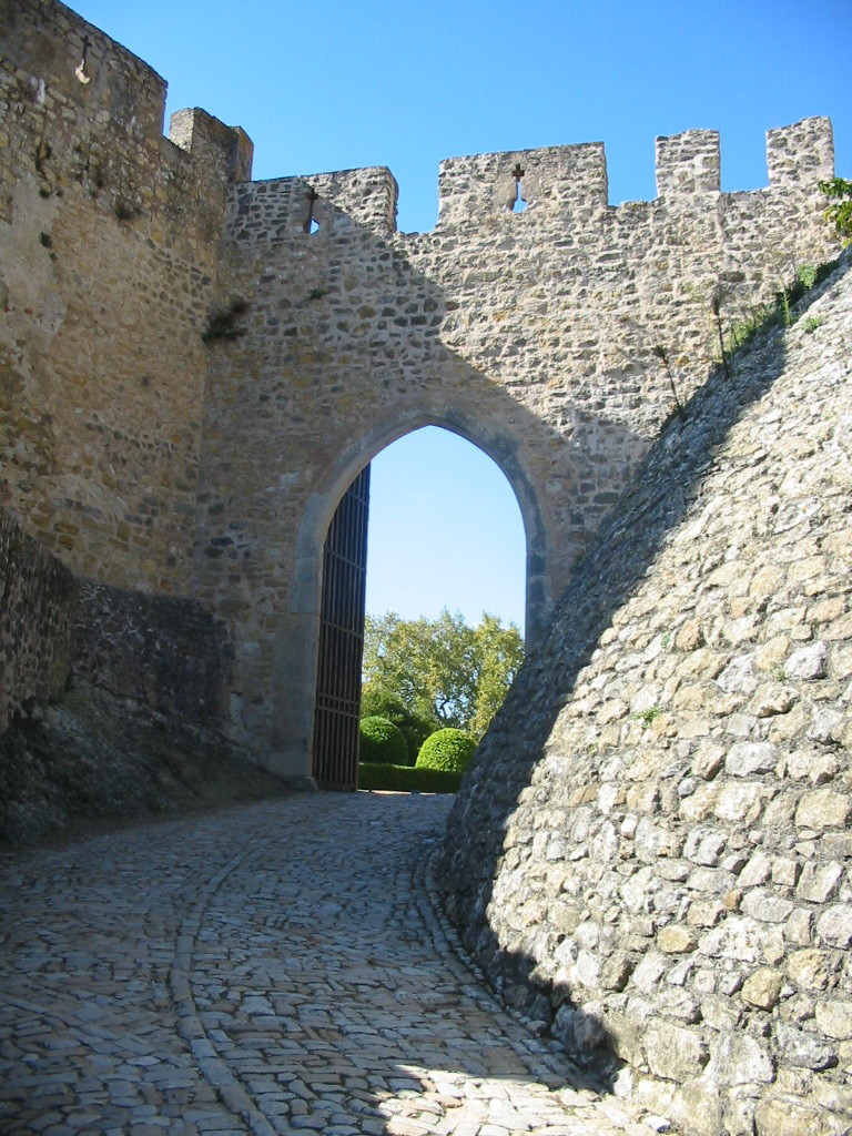 The Convent of the Order of Christ and the Templar Castle in Tomar form a unique monumental ensemble in their kind. The Castle was founded in 1160 by Dom Gualdim Pais, provincial Master of the Temple in Portugal, and within its walls lived the early inhabitants of Tomar. The heart of the fortress, the Alcazaba, with the keep was built on the east; the mystical place, the octagonal Templar Church, was built the West. With the dissolution of the Order of persecution by Philip the Fair, King of France, the Templars found in Portugal, the continuity of its sacred mission of Cavalry.